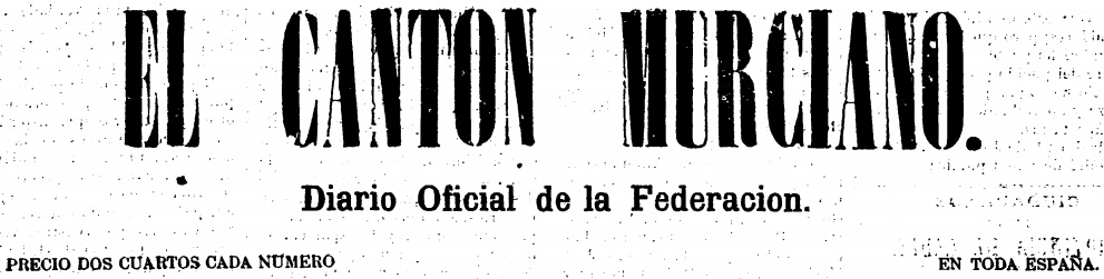 Publication headline.